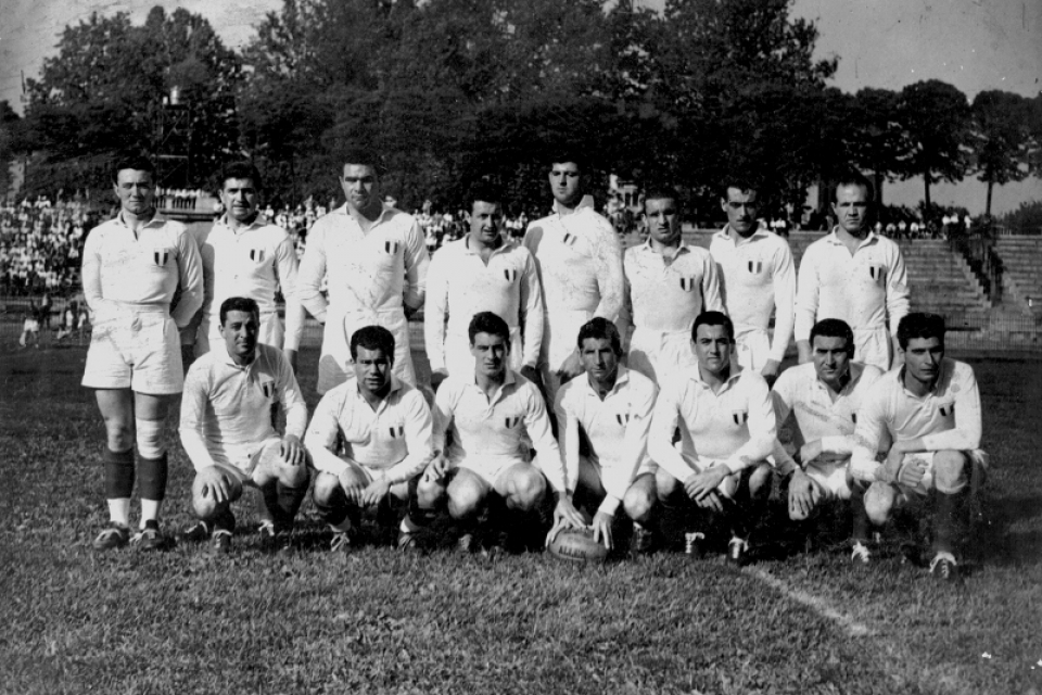 Arena Civica in Milan, final of European rugby Nation Cup 1952 between the national rugby union of Italy and France.In this photograph the Italian team in white uniform before the start whistle.